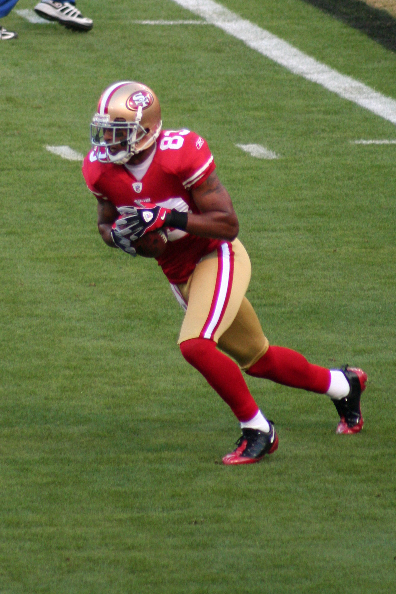 Arnaz Battle of the San Francisco 49ers warming up